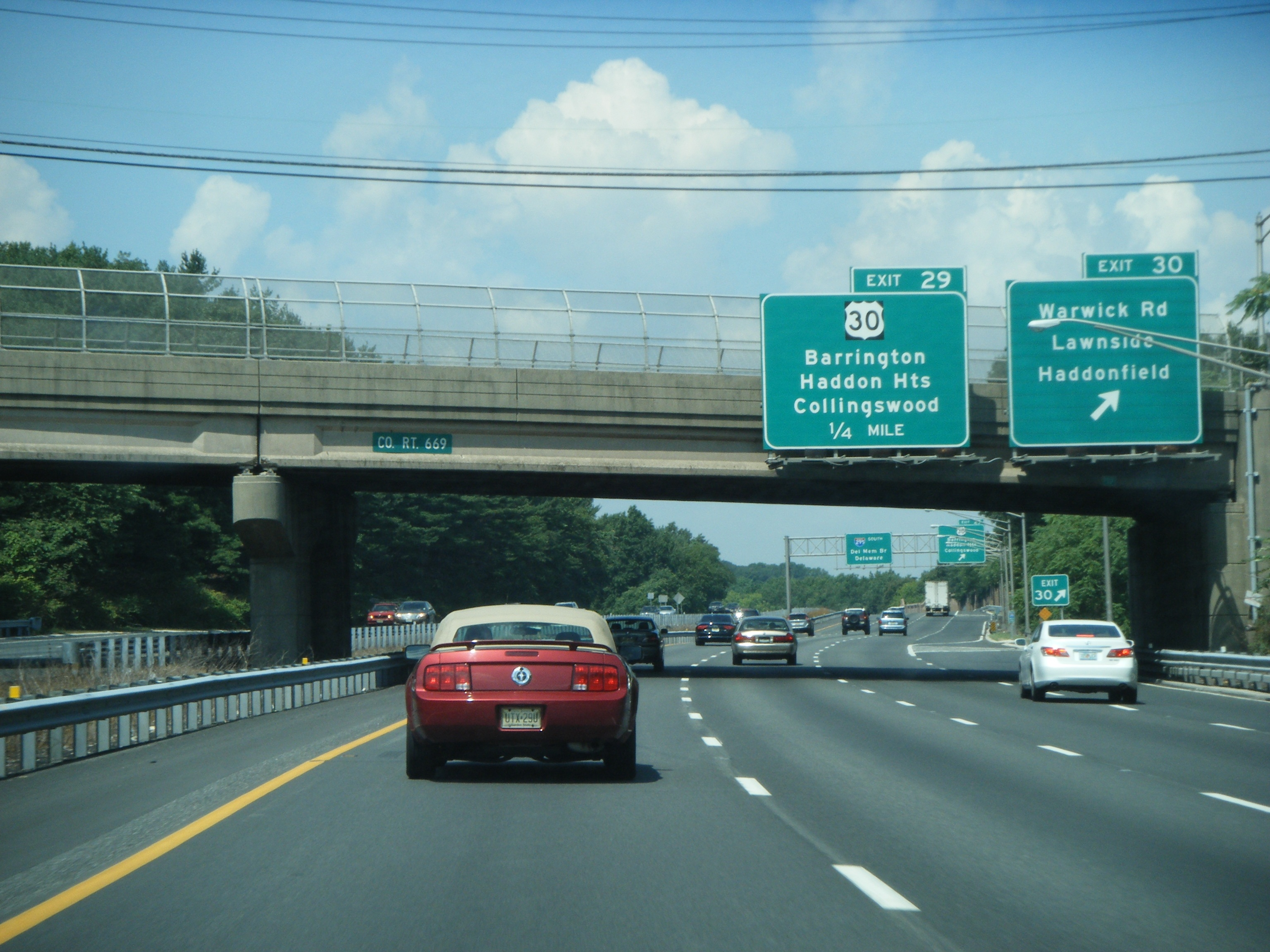 Southbound Interstate 295 at the exit for Warwick Road (exit 30) in Lawnside, New Jersey.